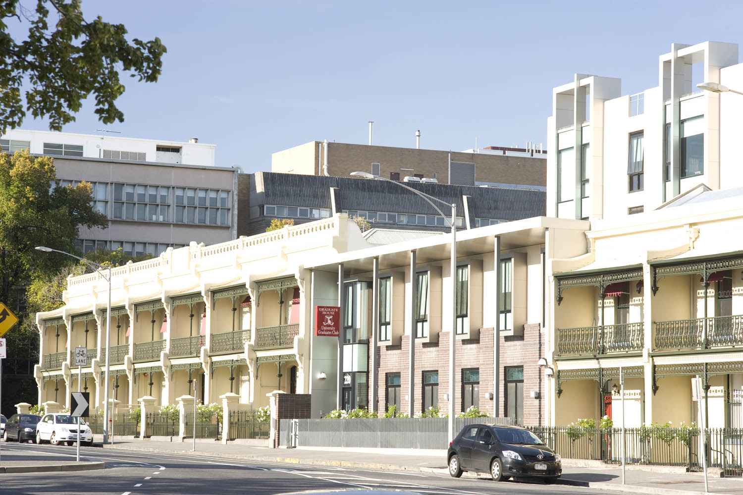 External View of the Graduate House Building